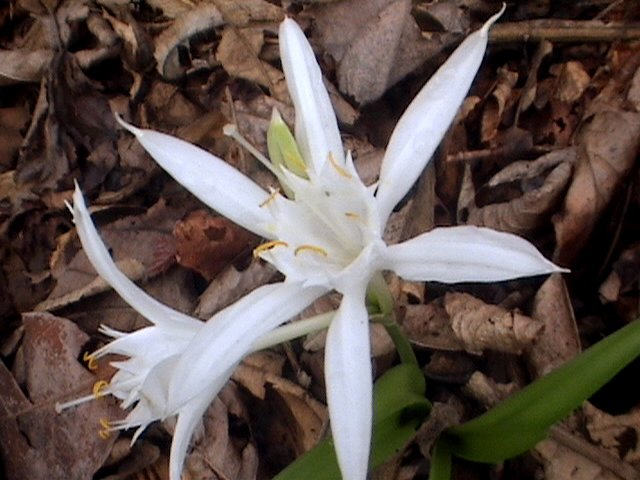 Forest Spider Lily (Pancratium parvum)